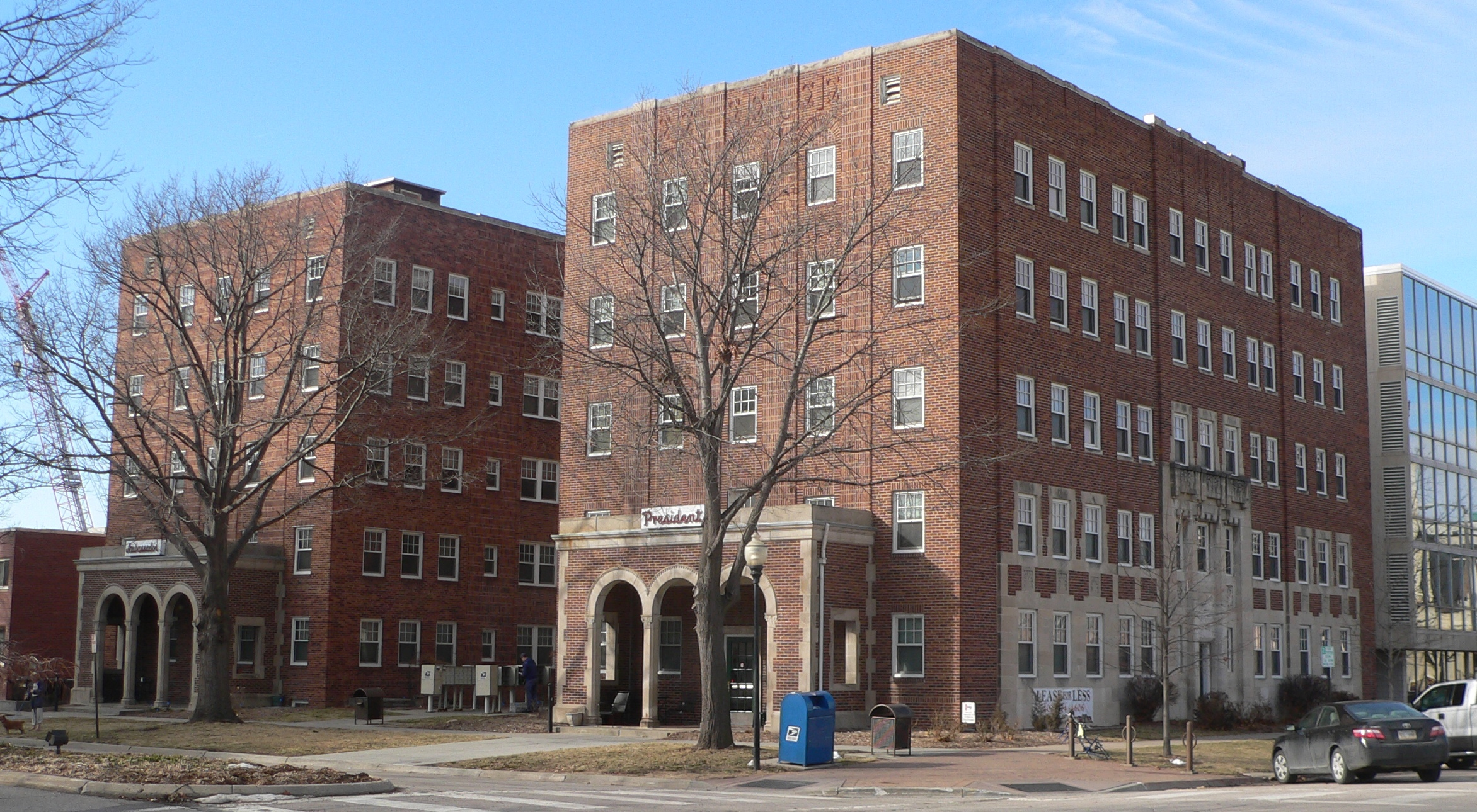 Ambassador and President Apartments, located respectively at 1330 (left=west) and 1340 (right=east) Lincoln Mall in Lincoln, Nebraska. View is from the southeast.